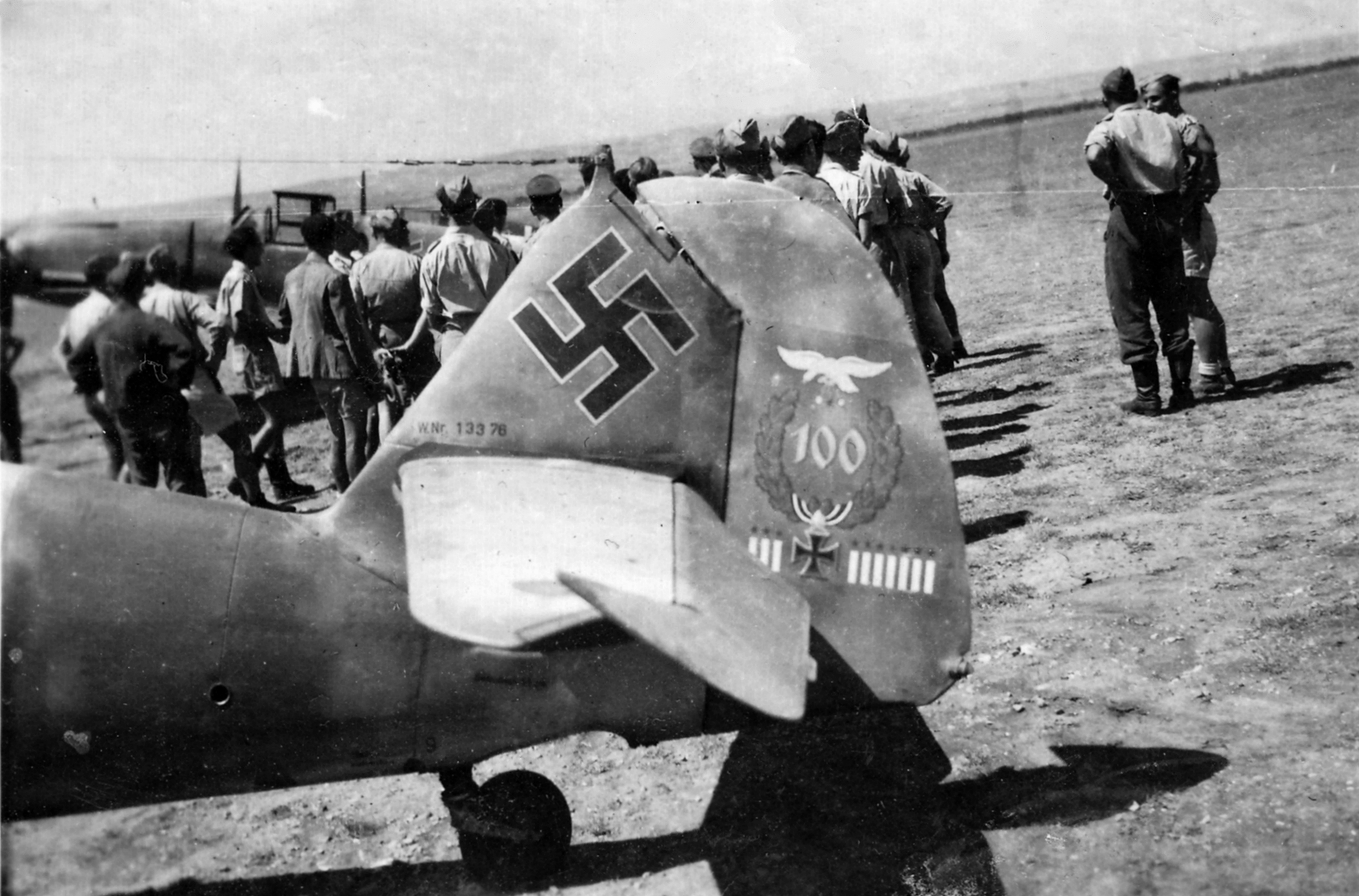 Tail of the German Messerschmitt Me 109F-4 (W. Nr. 13376) of Oskar-Heinrich ("Heinz) Bär the Stab I./JG 77. The photo was probably taken at Comiso, Italy, in July 1942. The tail shows that the pilot has received "Ritterkreuz des Eisernen Kreuzes mit Eichenlaub und Schwertern" for his 100th kill (on 16 February 1942). Bär finished the war with 220 kills.For more photos of this aircraft see [1].